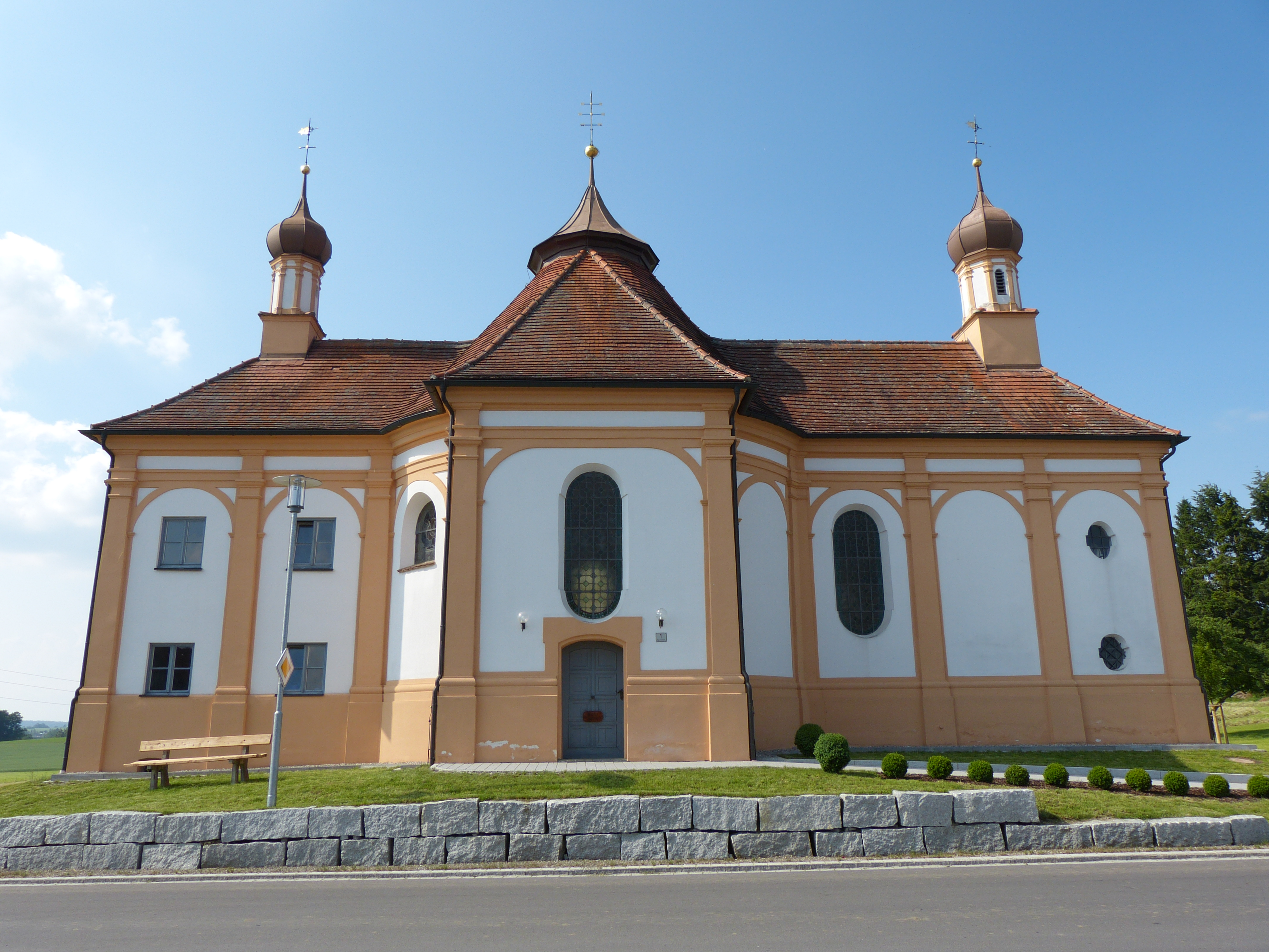 St. Antonius of Padua in Berg near Markt Wald, Landkreis Unterallgäu, Bavaria